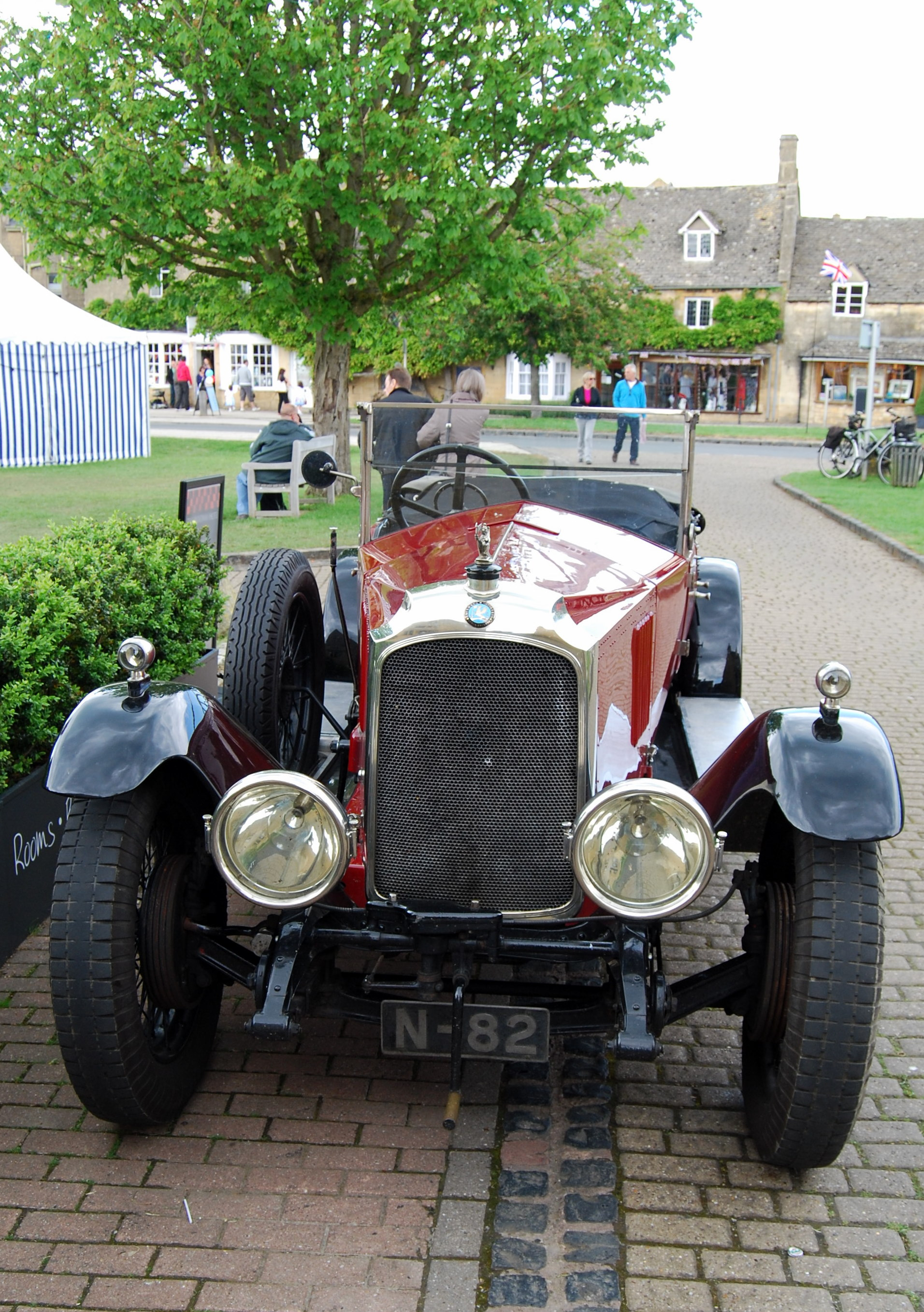 (DVLA) manufactured 1924 4224 cc probably 30-98 OE with Velox body Photo ref; DSC0463-2012 This photo was taken on June 4, 2012 in Broadway, Worcestershire England, GB, using a Nikon D40X. According to the UK government database this car was manufactured in 1924 but first registered in the UK only on 13 December 1982. That implies that it was originally sold and spent its first 58 years in another country. (There are, of course, other possible explanations for the difference between the given year of manufacture and the given year of first registration in the UK.) The engine capacity is given as 4224cc.